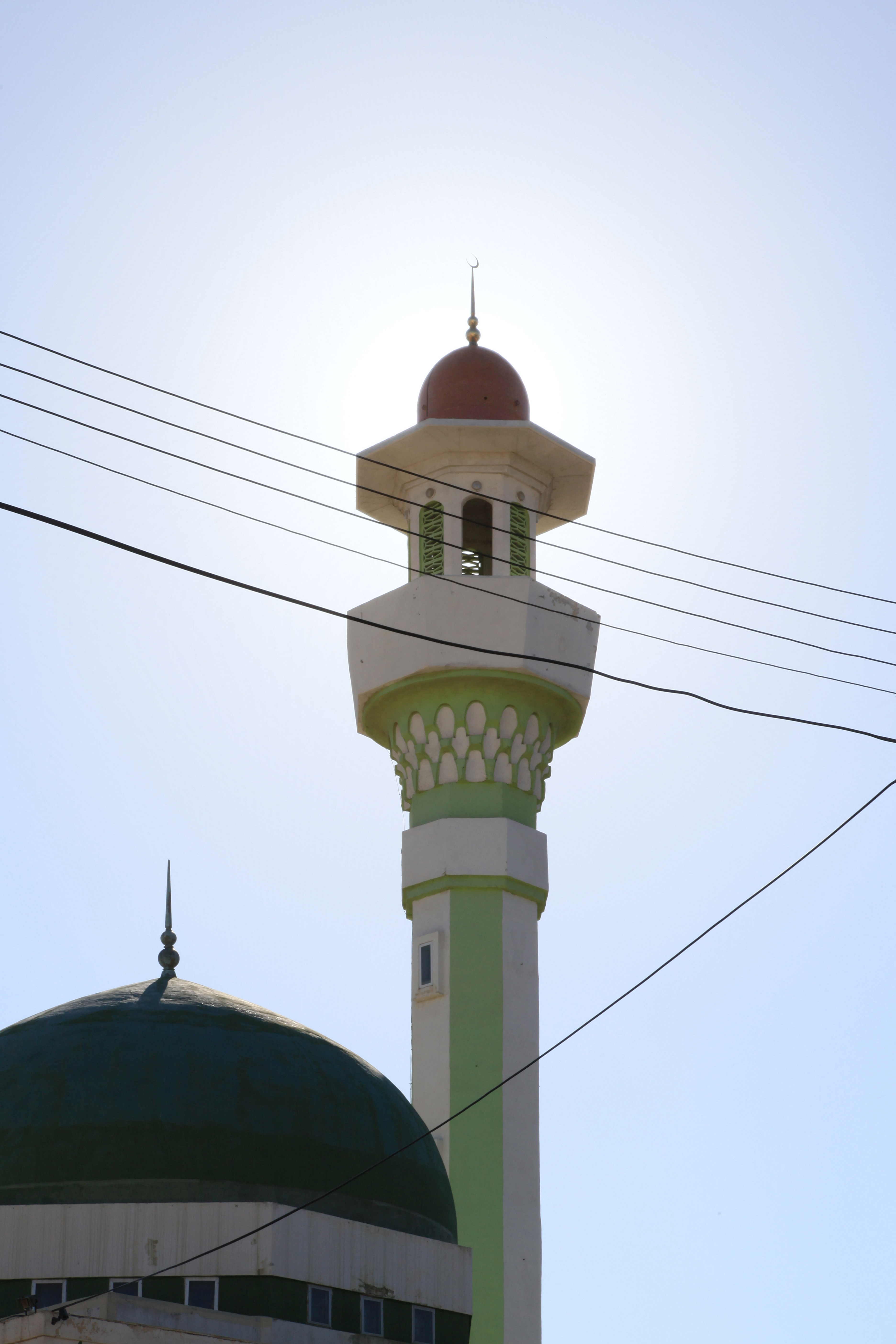 Mariam Al-Batool Mosque at Triq Kordin in Paola, Malta